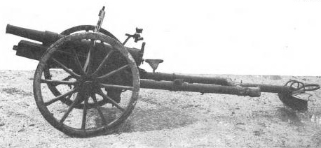 Japanese Type 41 75mm Mountain Gun from the Second World War.